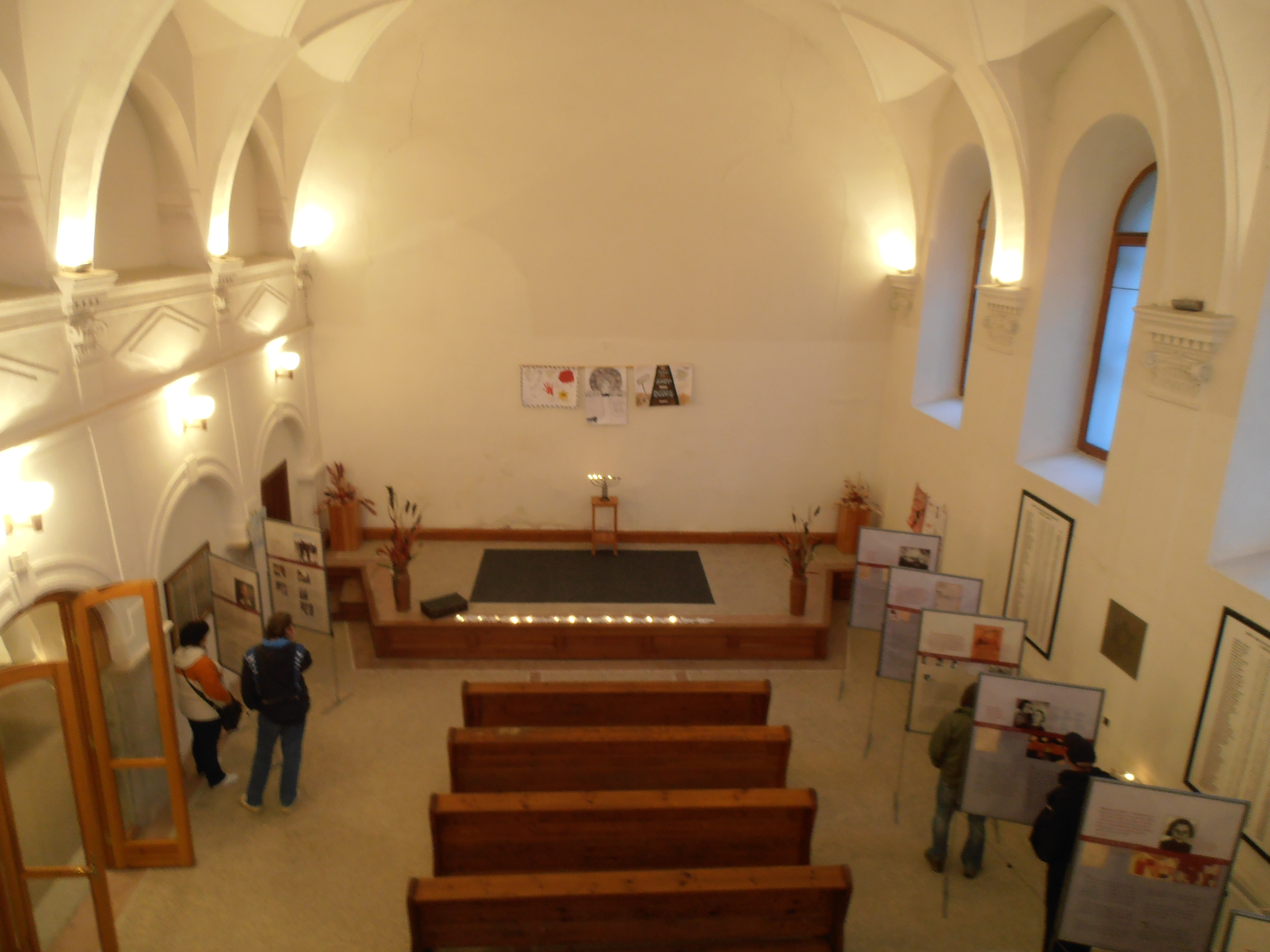 Třešť ( Moravia/ Czech Republic ). Synagogue - Interior.